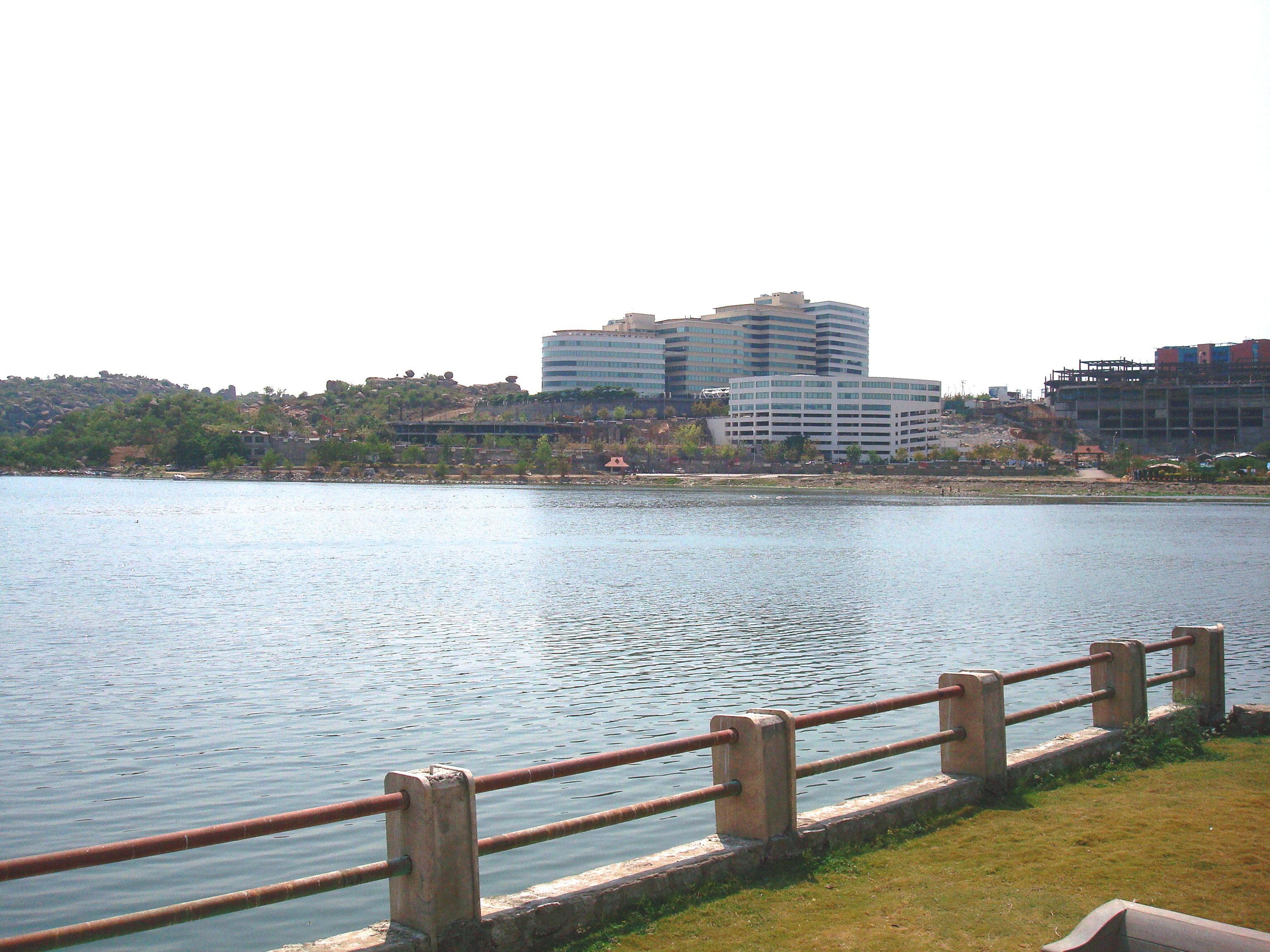 This image shows the Lake Durgam located close to the Hitec city at Madhapur.